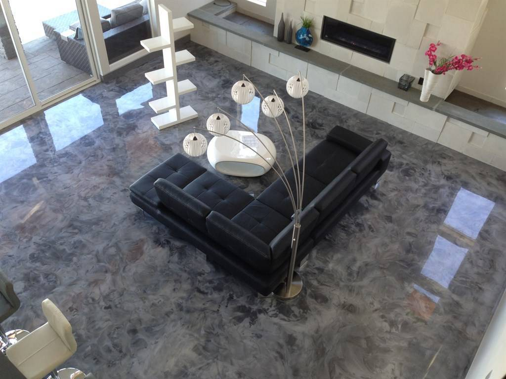 Porcelanato Liquido